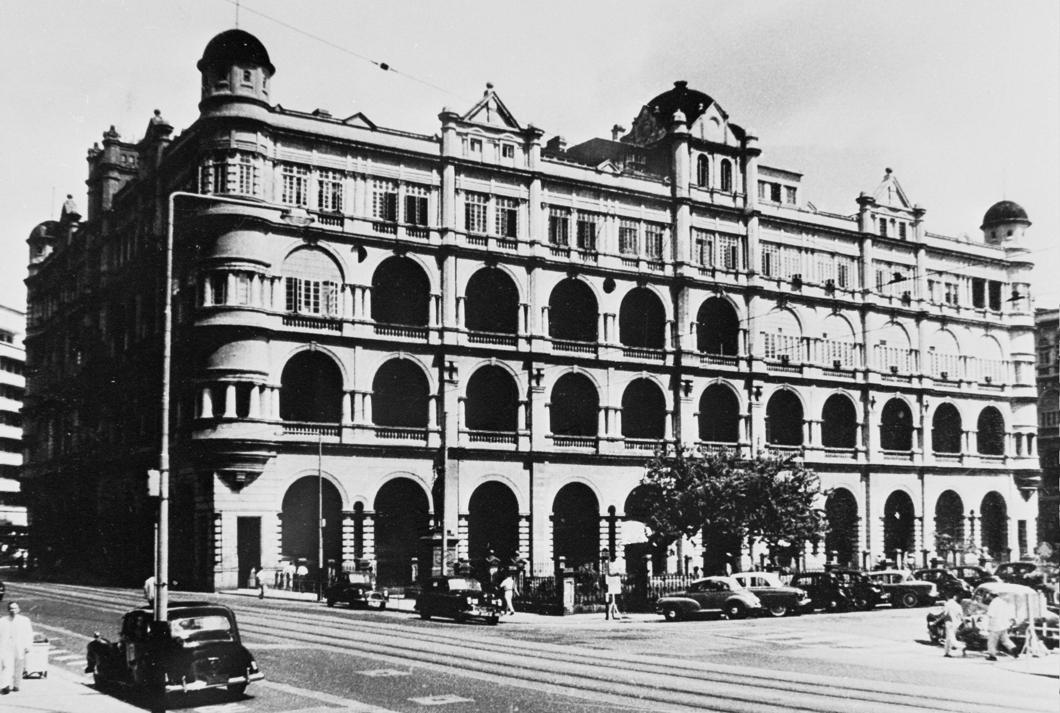 Prince's Building, Chater Road, Hong Kong, Occupied by Rating Office (British Military Administration)